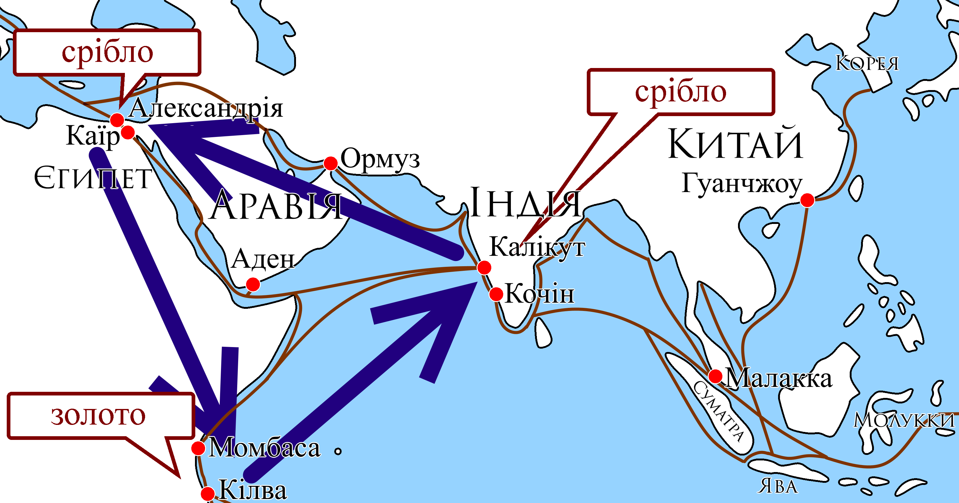 MonsoonMarketplace